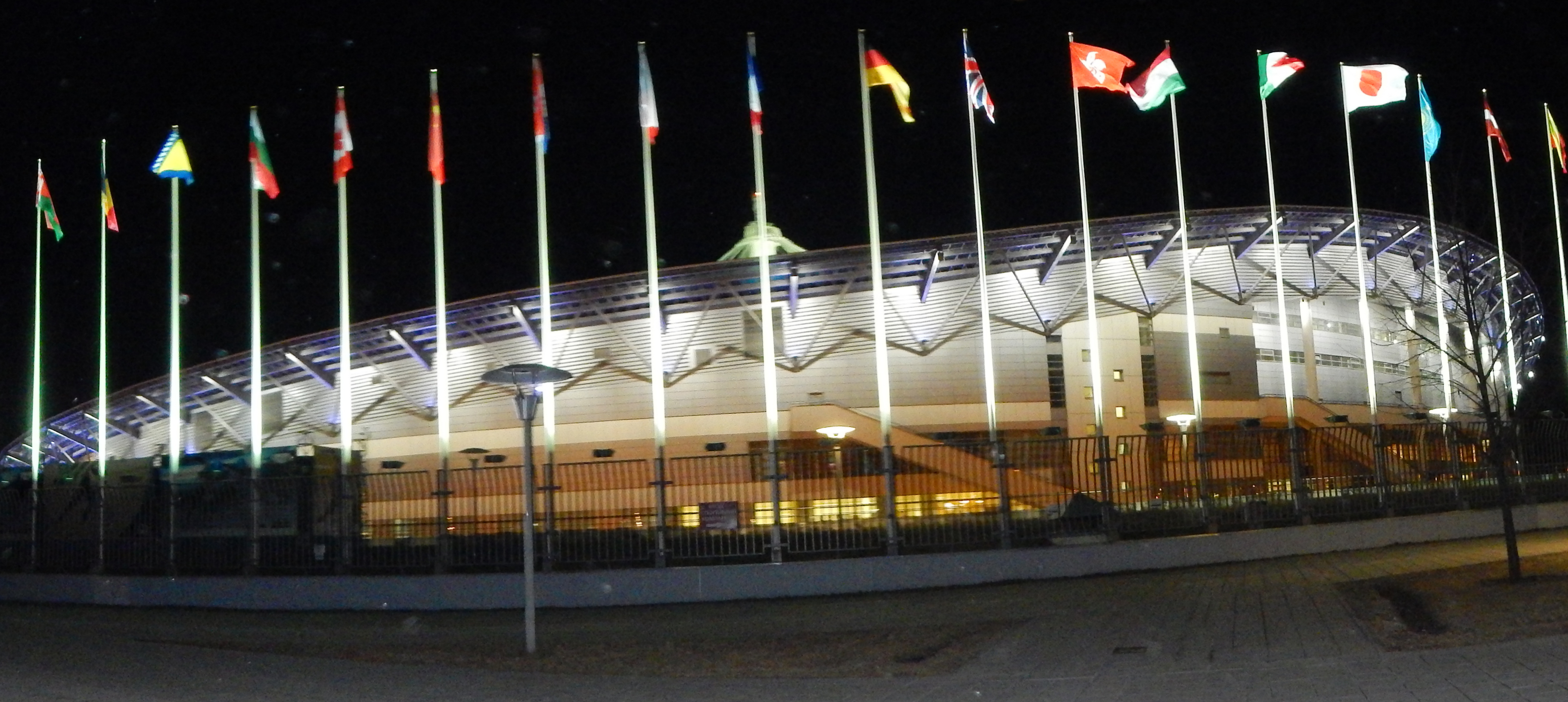 Krylatskoe Sport Palace during 2015 World Short Track Speed Skating Championships